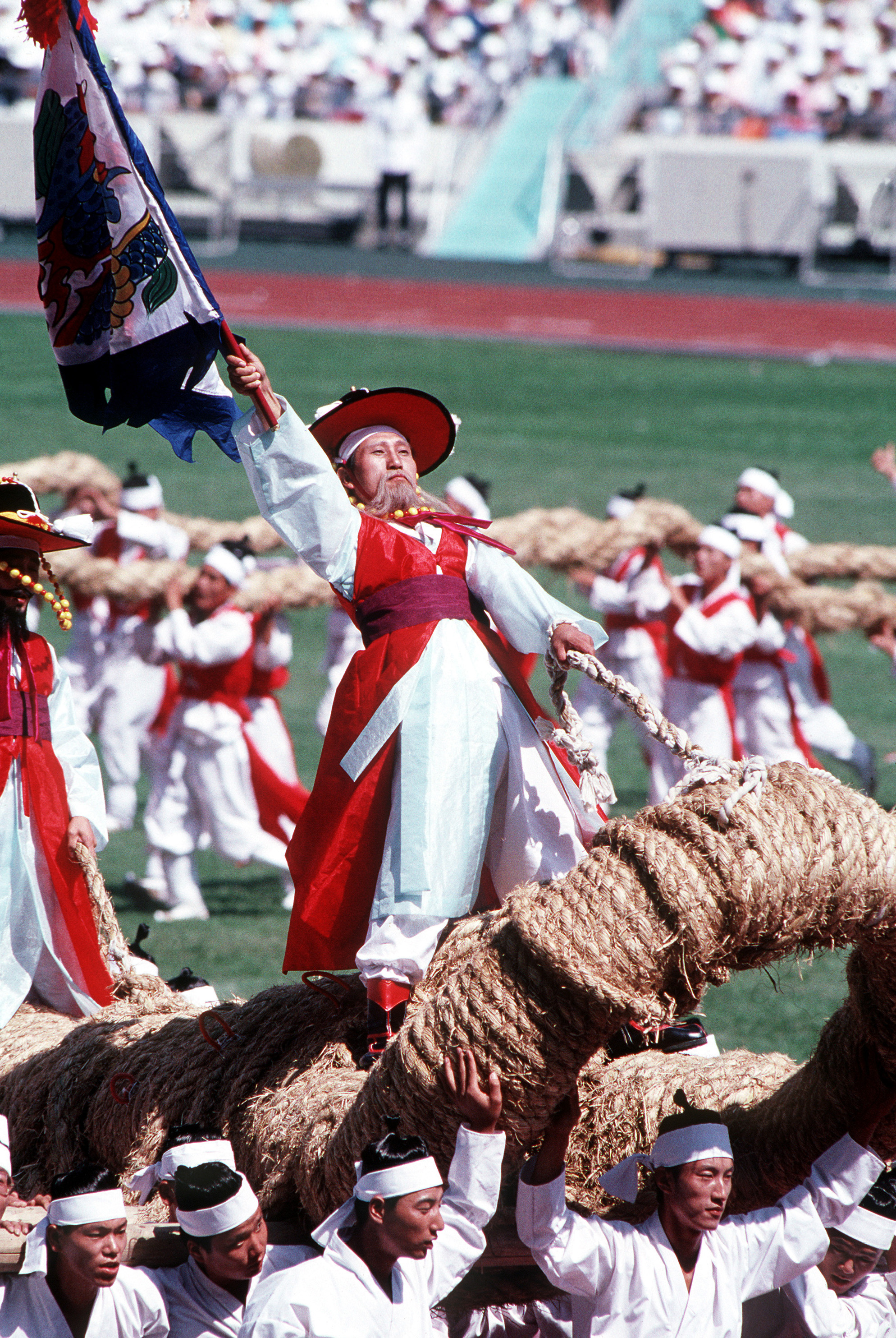 An ornately dressed Korean holds a flag in a ceremony at the XXIVth Olympiad.